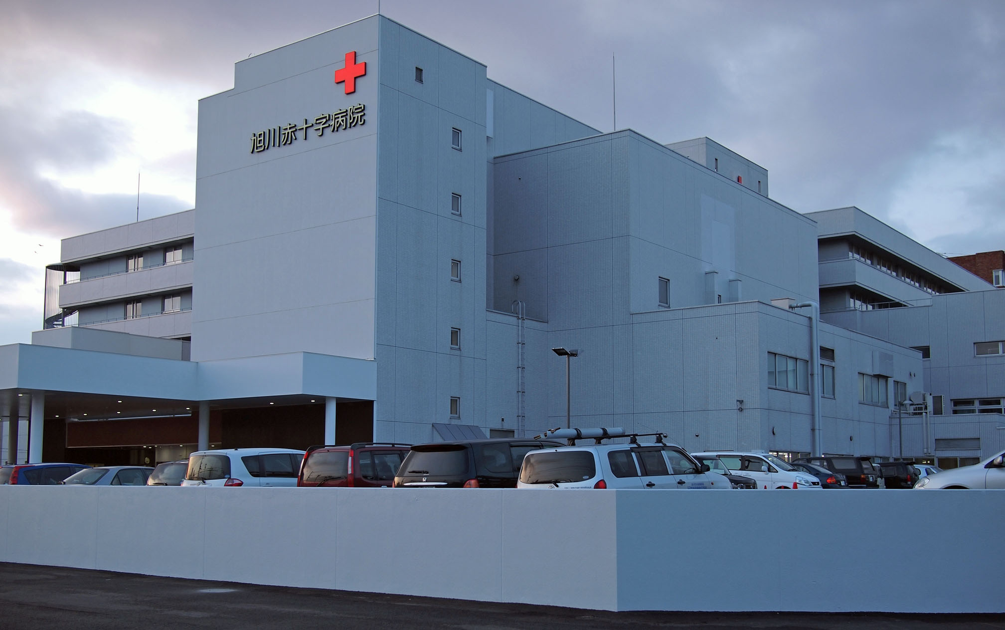 Japanese Red Cross Asahikawa Hospital, Asahikawa, Hokkaido, Japan